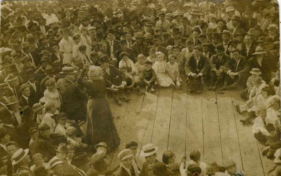 Labor organizer Mother Jones rallying workers at the town of Montgomery in August 1912 during the Paint Creek--Coal Creek strike.